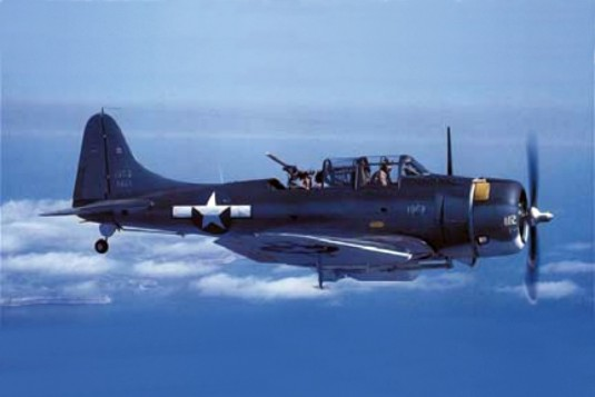 A U.S. Navy or Marine Corps Douglas SBD-5 Dauntless in tricolor scheme carrying bomb, ca. 1944-45.